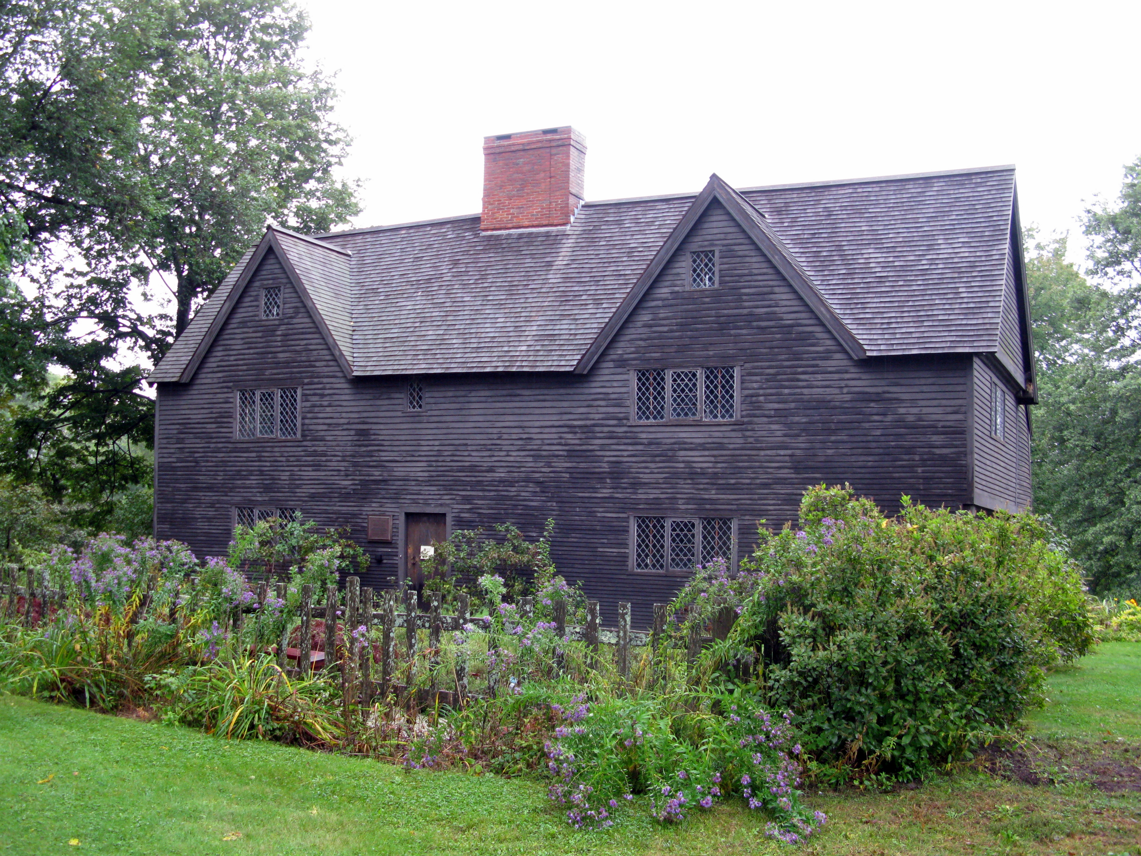 Whipple House 1 South Village Green Ipswich, Massachusetts